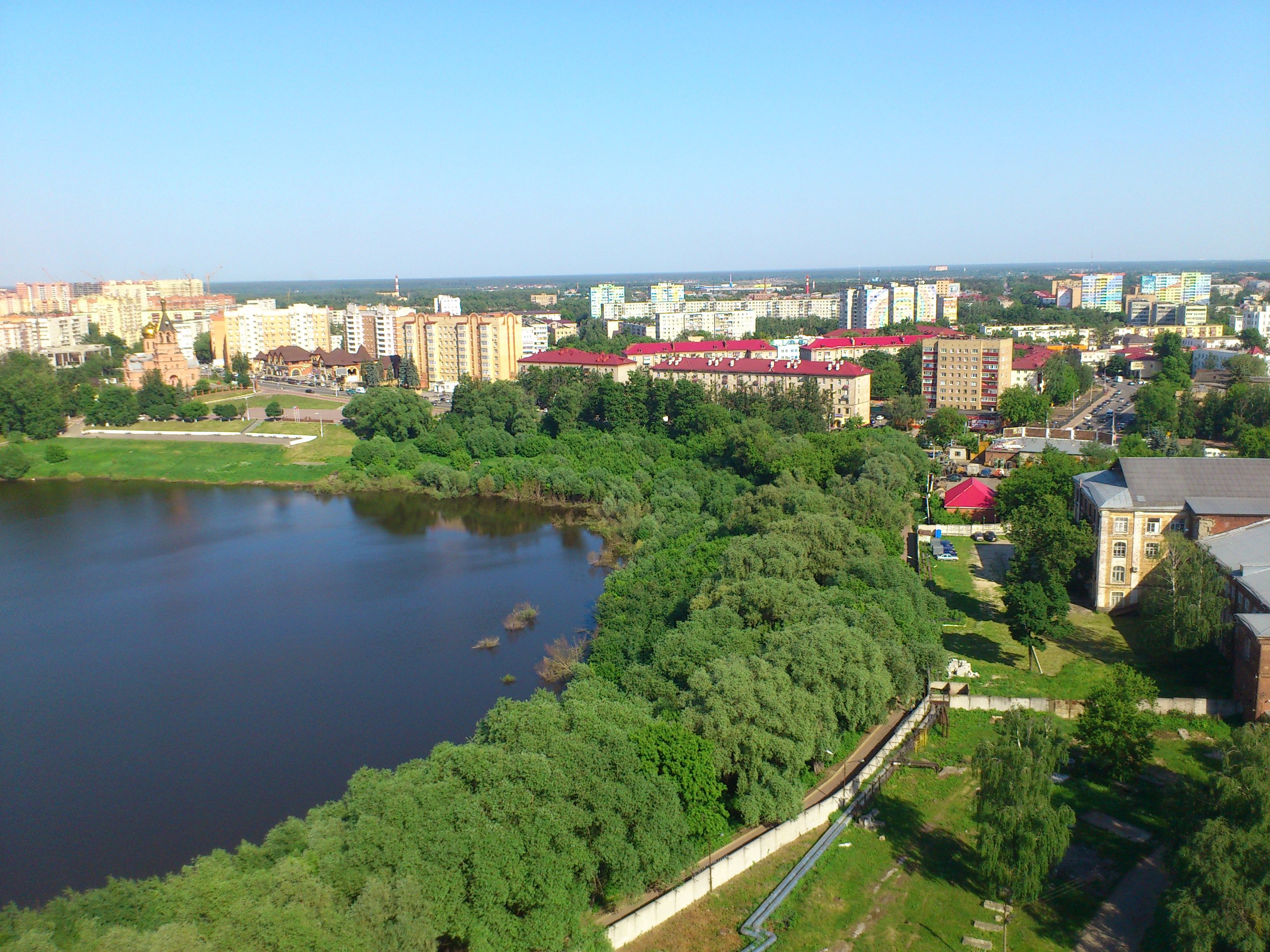 Ramenskoye, Moscow Oblast, Russia